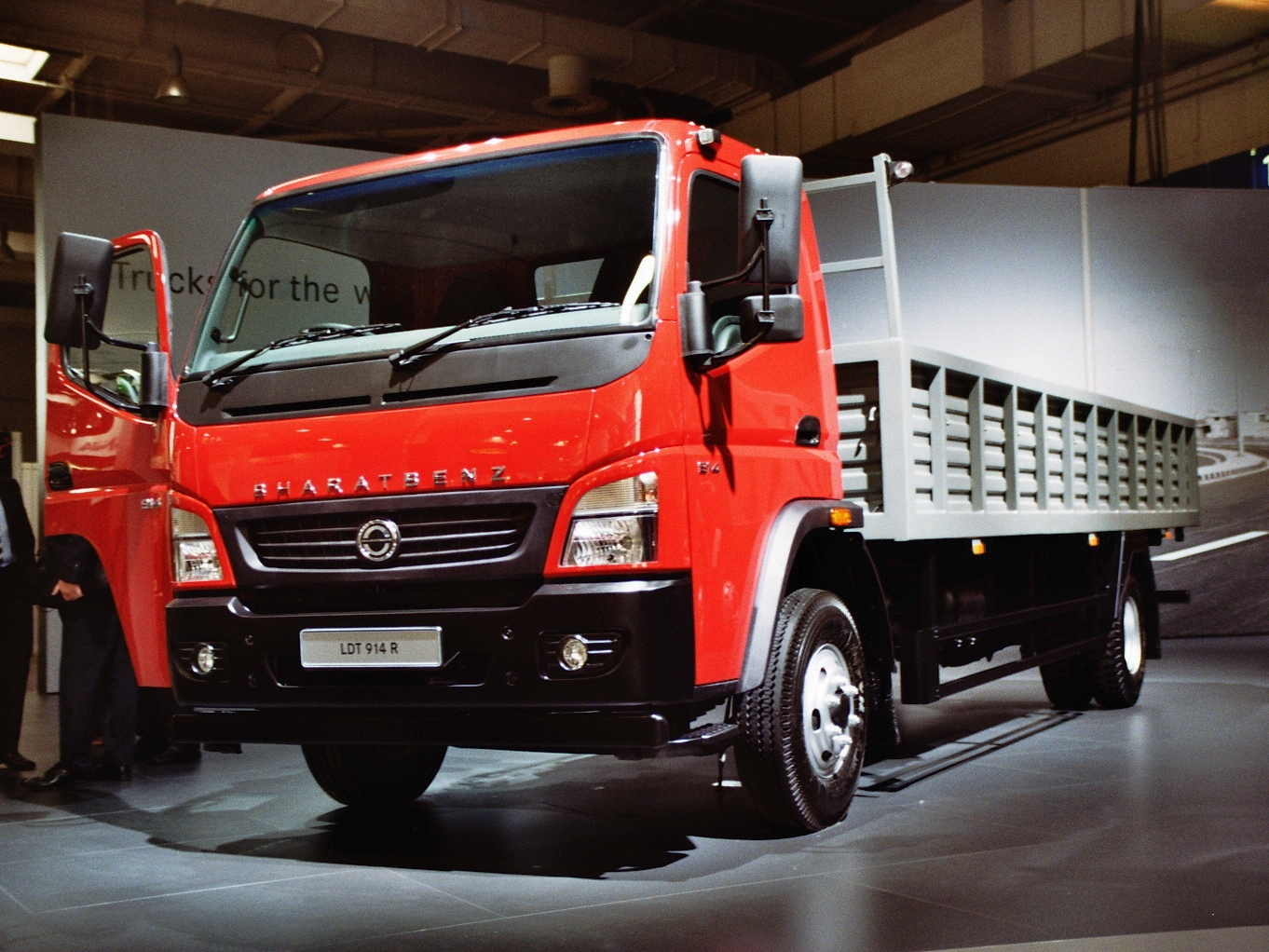 BHARATBENZ Light Duty Truck 914 R. (Since 2014: Medium-Duty Truck). Built 2012, photo taken at exhibition IAA 2012 in Hanover, Germany.